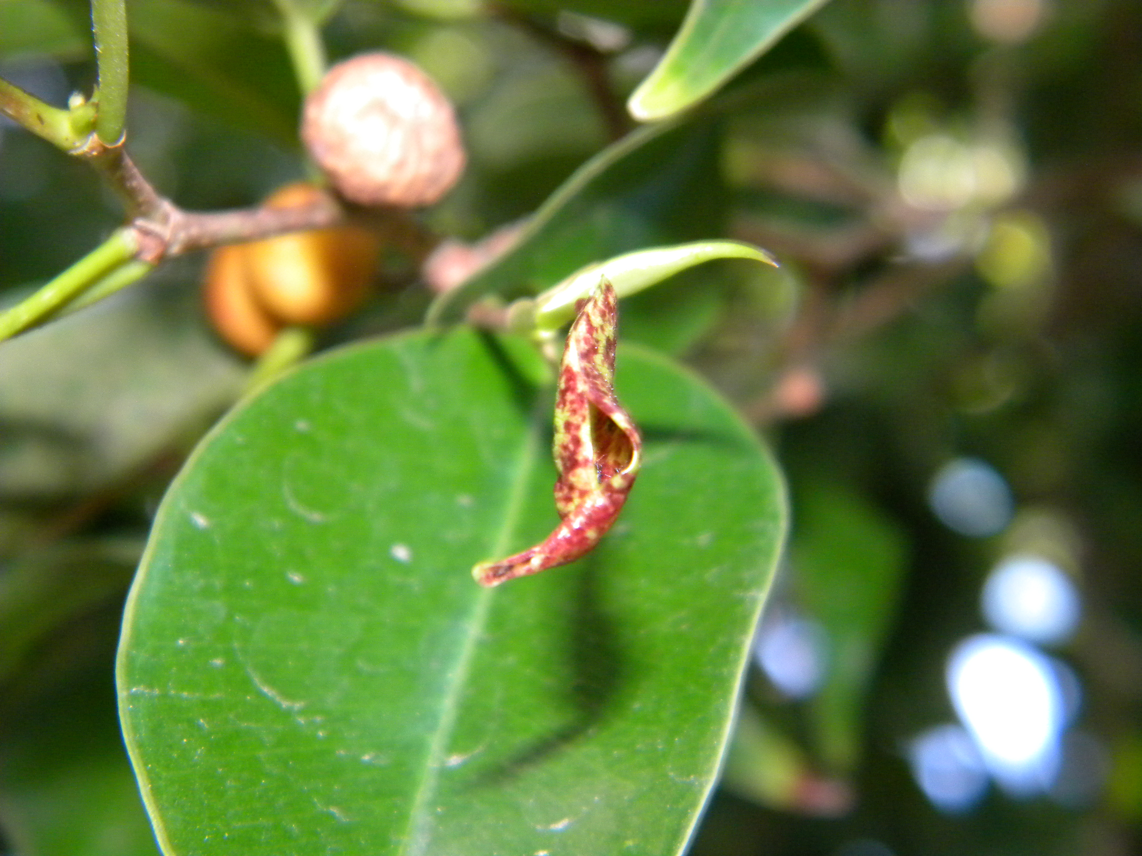 Thrips infesting Ficus tree